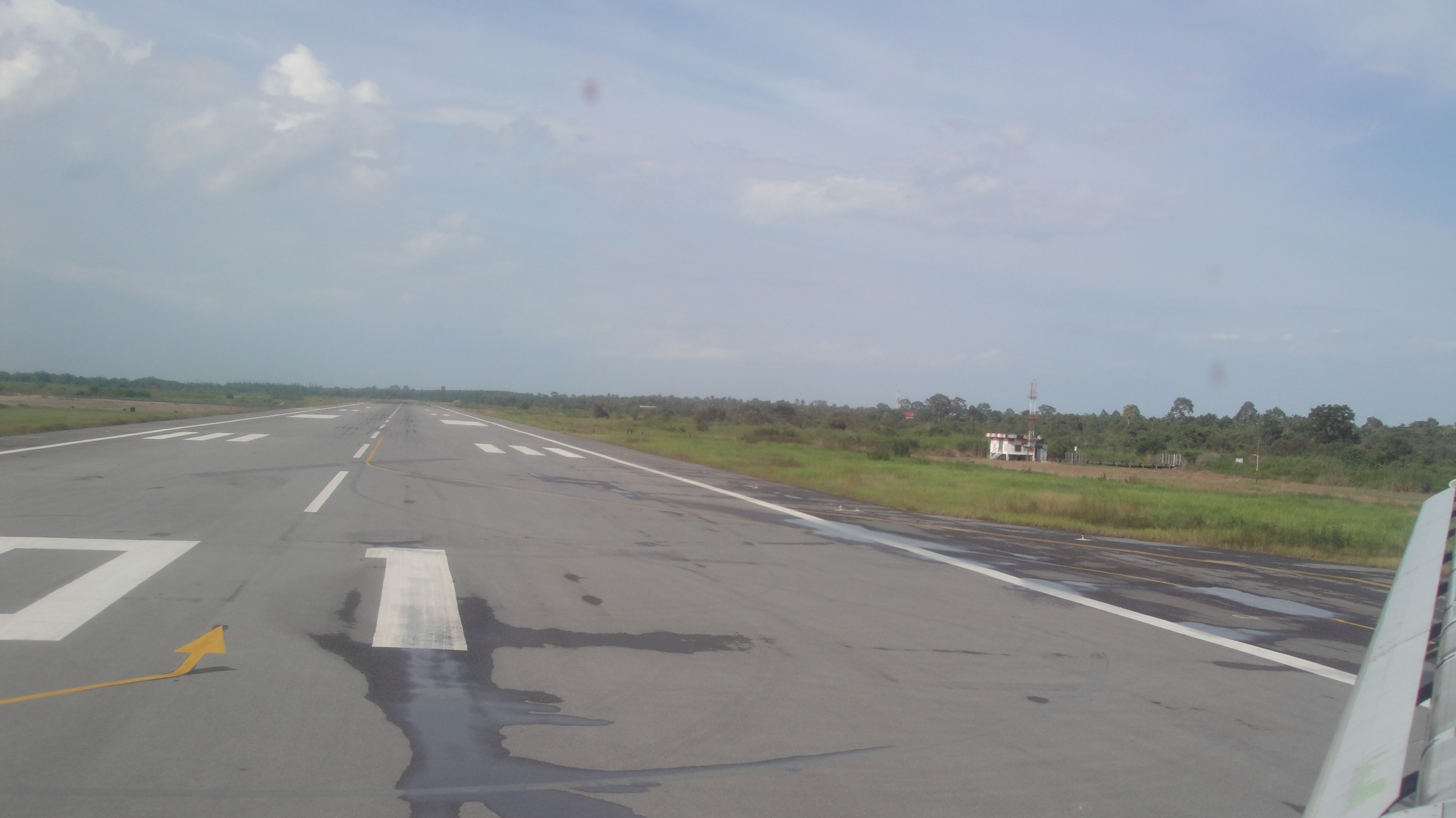 Runway 01/19 of Nakhon Si Thammarat Airport